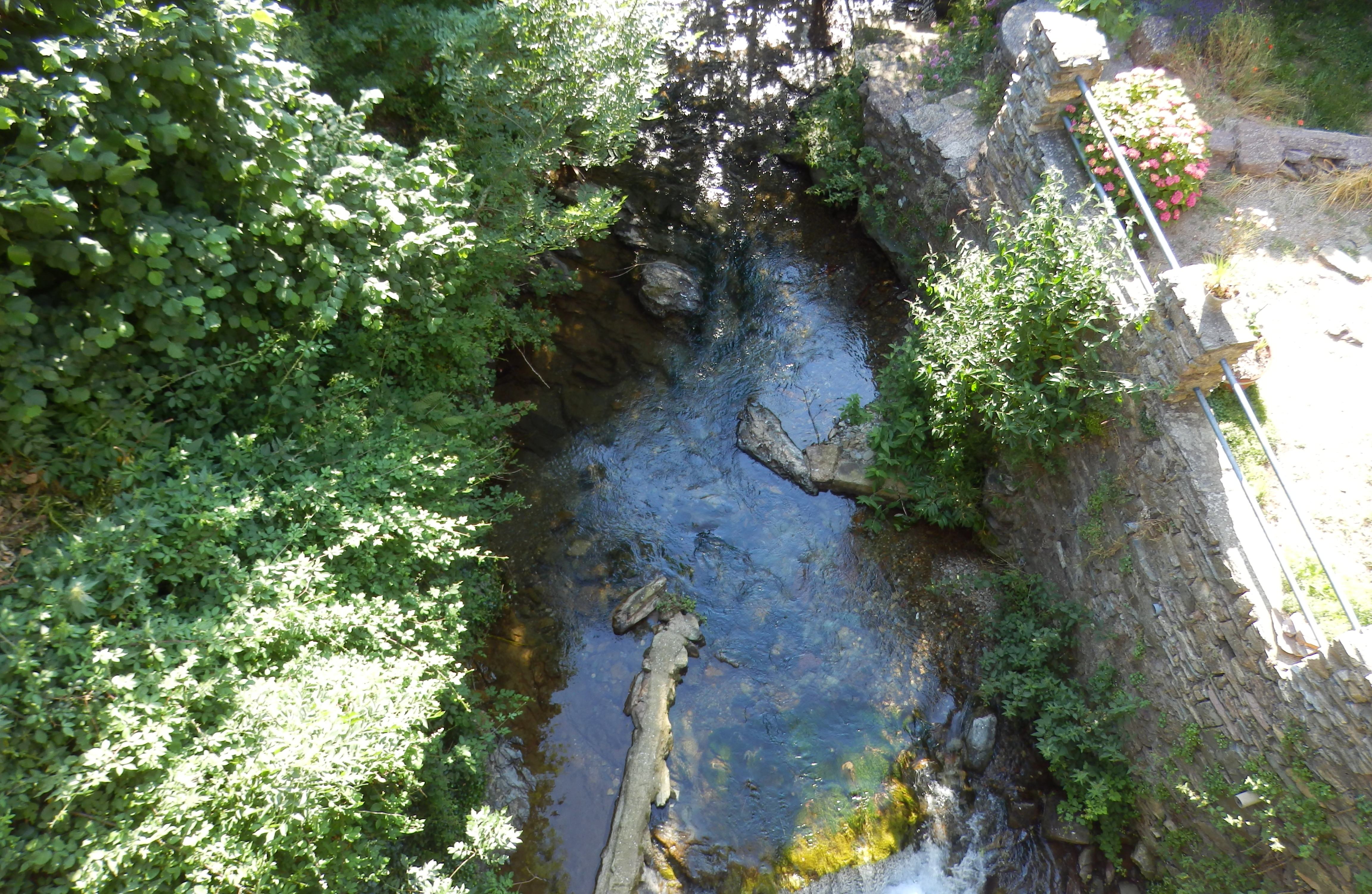 La Cesse in Ferrals-les-Montagnes, Hérault, France, close to the spring of the river, in June 2018